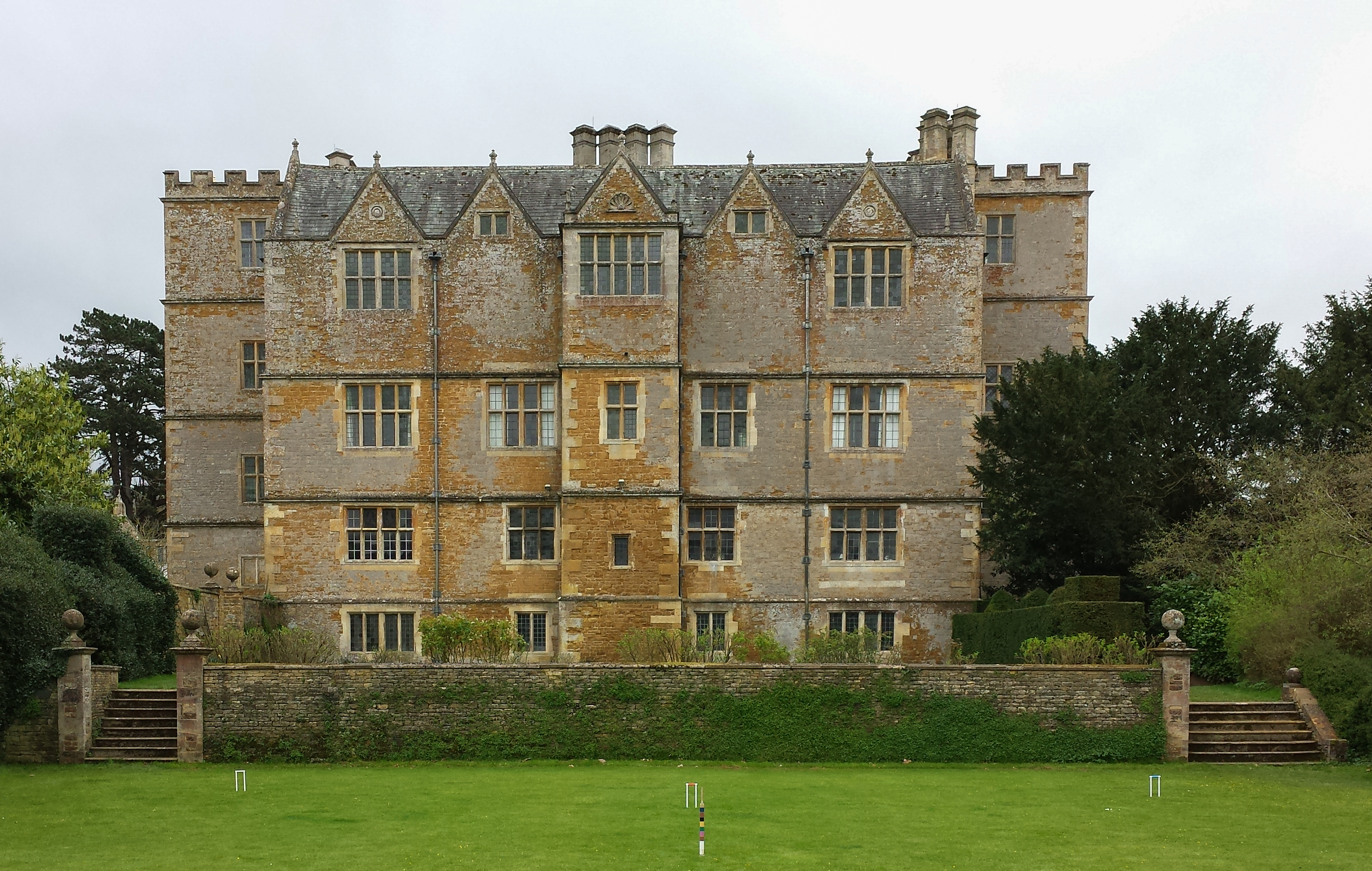 The rear of Chastleton House, Oxfordshire. This is a Grade I Listed Building in England.